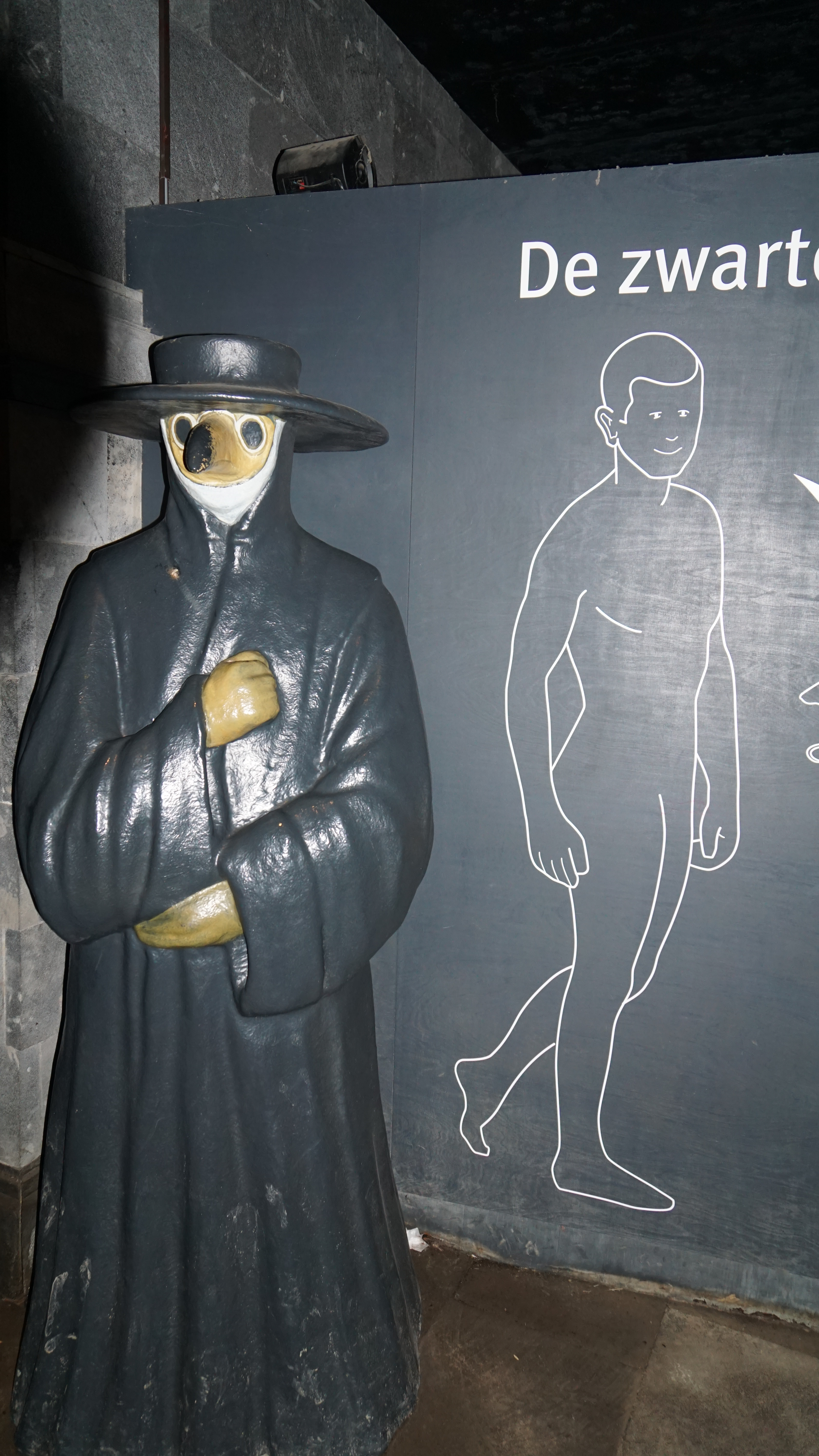 2015-05-02_12-46-53_ILCE-6000_DSC03173